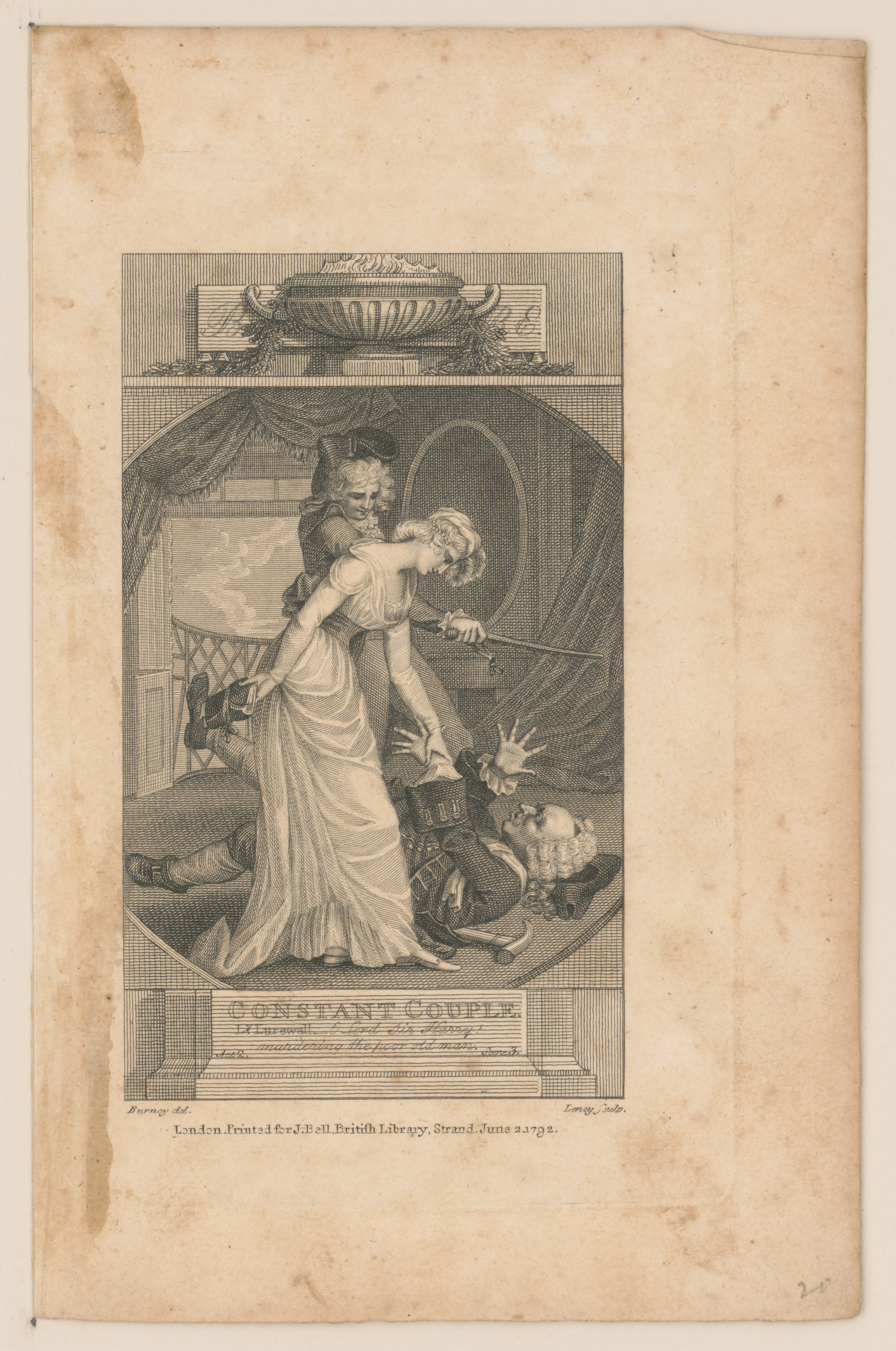 Title: Constant couple Physical description: 1 print. Notes: This record contains unverified data from PGA shelflist card.; Associated name on shelflist card: Leney.